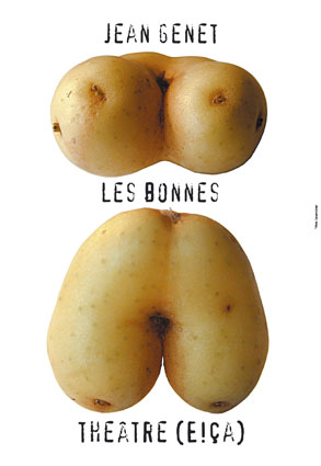 The Housemaids One Sunday at the market, I bought a half pound of potatoes. At the bottom of the paper sack was a little succulent one whose destiny was to end up on a poster, not on a plate !